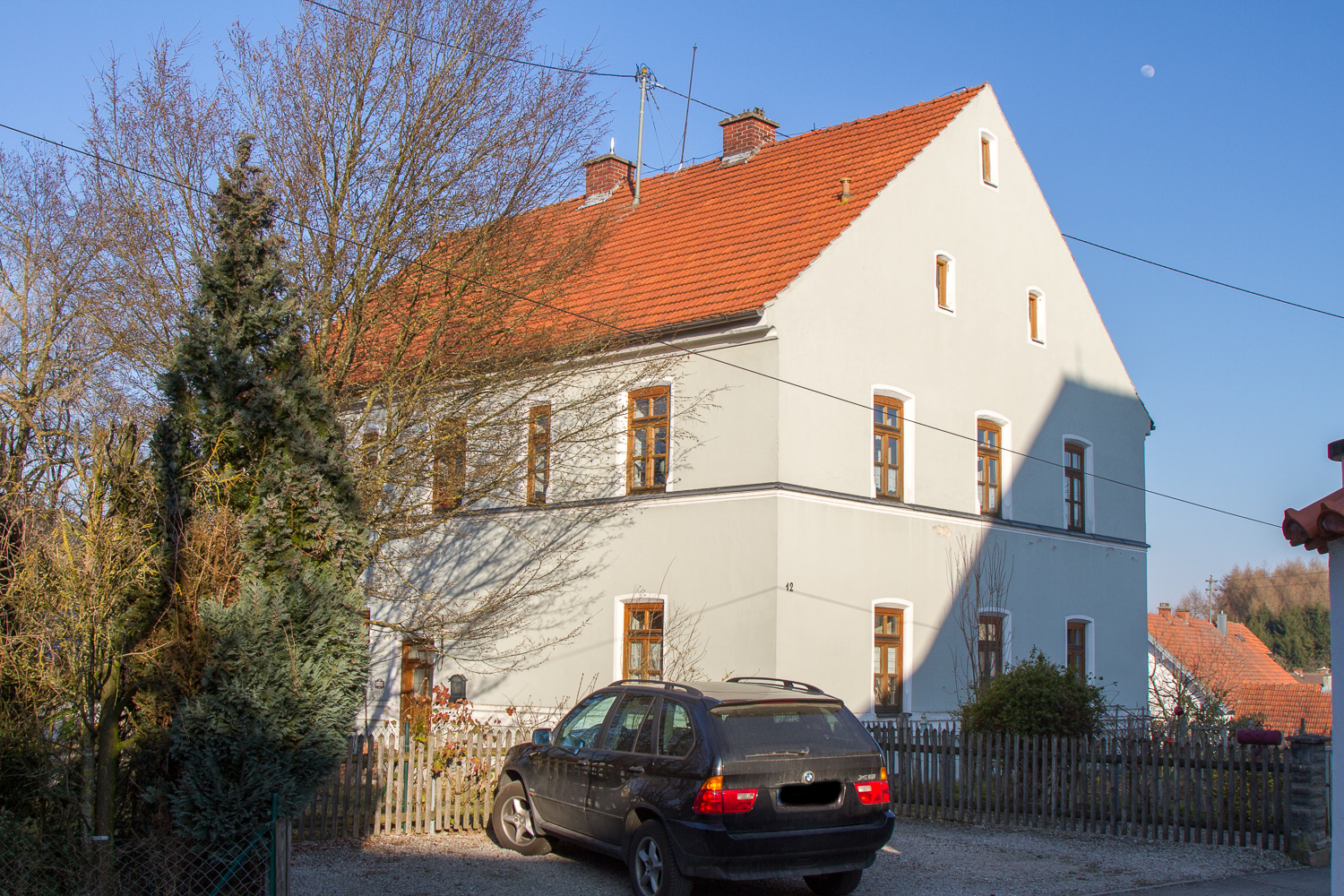 This is a photograph of an architectural monument.